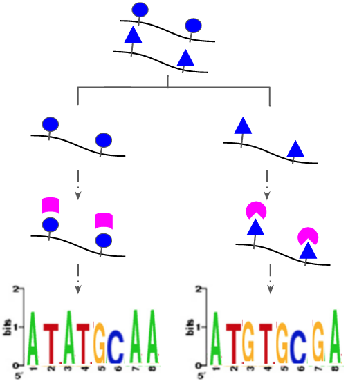 Inosine base pairs differently to adenosine (from which it is derived). Inosine pairs with cytidine while adenosine pairs with uracil. Therefore a cDNA library can be constructed and the RNA products compared against the genome.